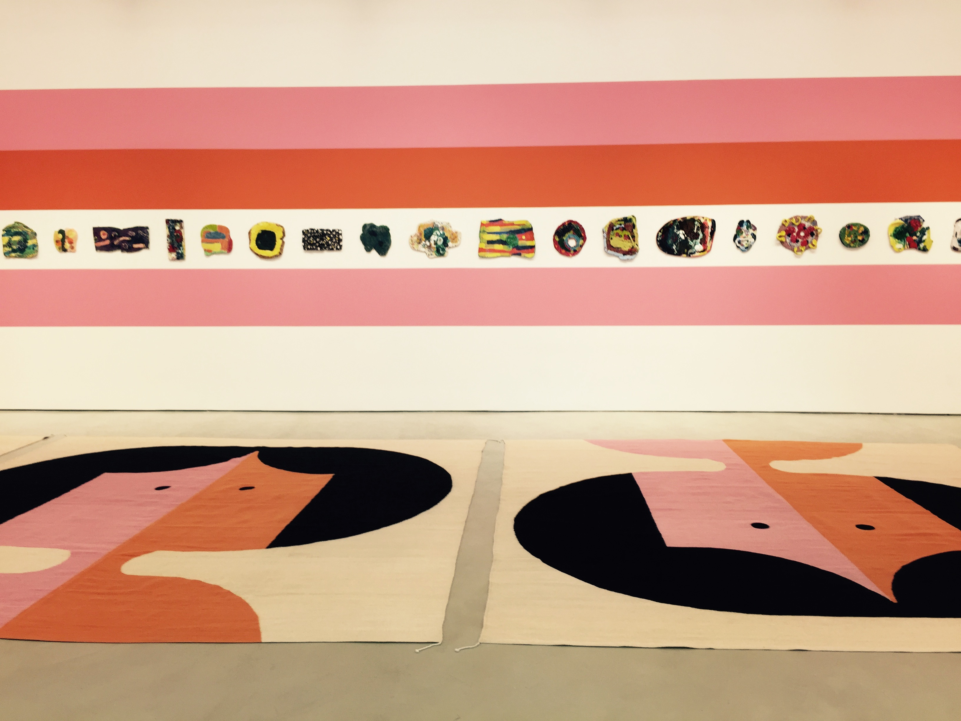 Detail of "The Potential of Women" at Alexander Gray, New York, NY, September 7 - October 21, 2017 picture taken by Polly Apfelbaum